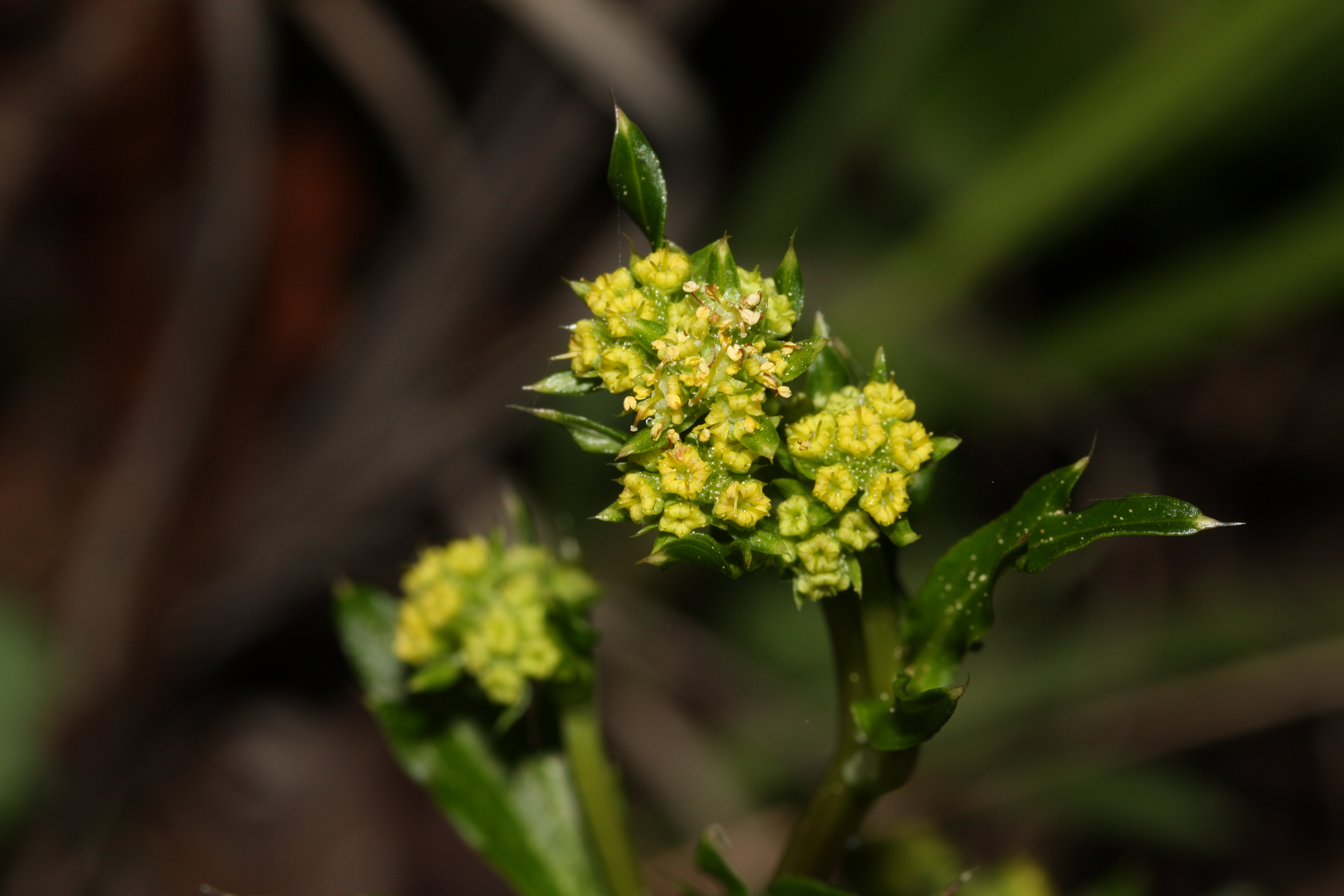 Pacific Sanicle, Pacific Blacksnakeroot; auth. Poepp. ex DC.